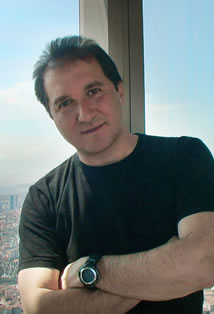 Abdullah Eksioglu 2011